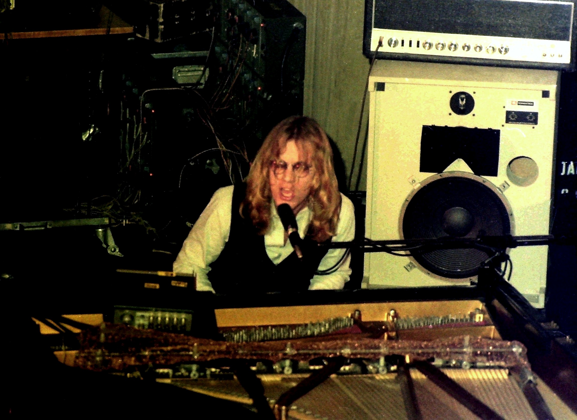 1976 - Warren Zevon - Solo Concert in Heidelberg Germany- opener for Jackson Browne